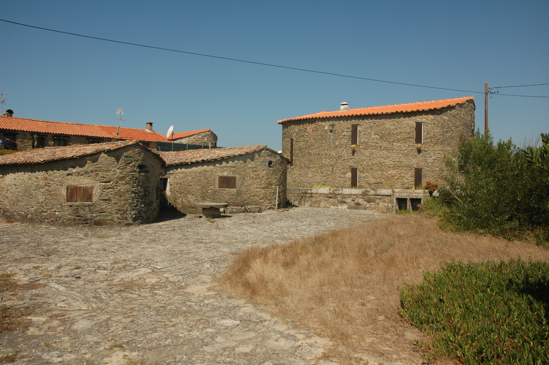 typicas houses of the Pedrinhas place